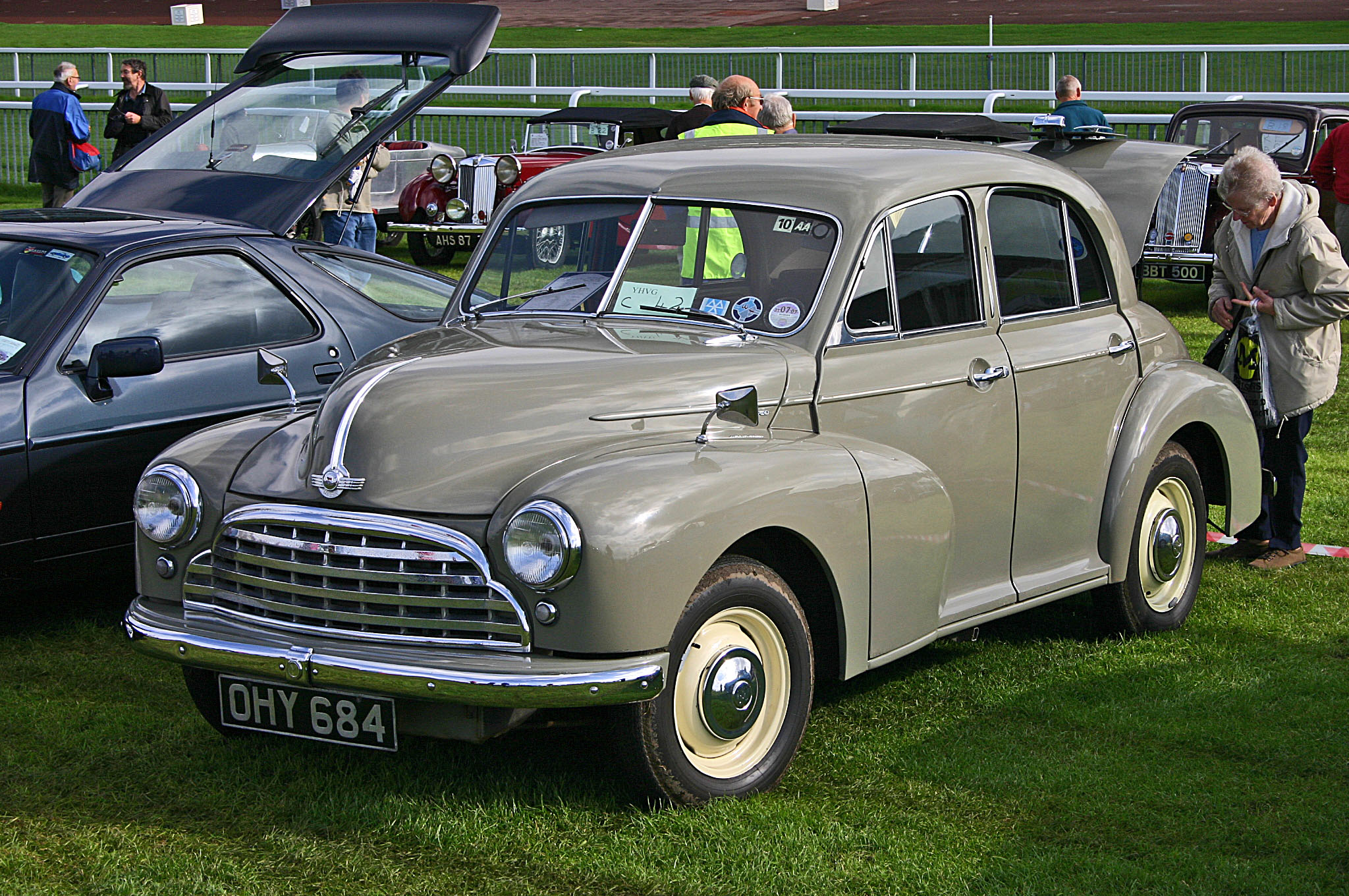 The Original Morris Oxford MO with Mazac Grille. Early versions had a slightly different bonnet with dangerous "horns" at the corners.(DVLA) manufactured 1952, 1777cc